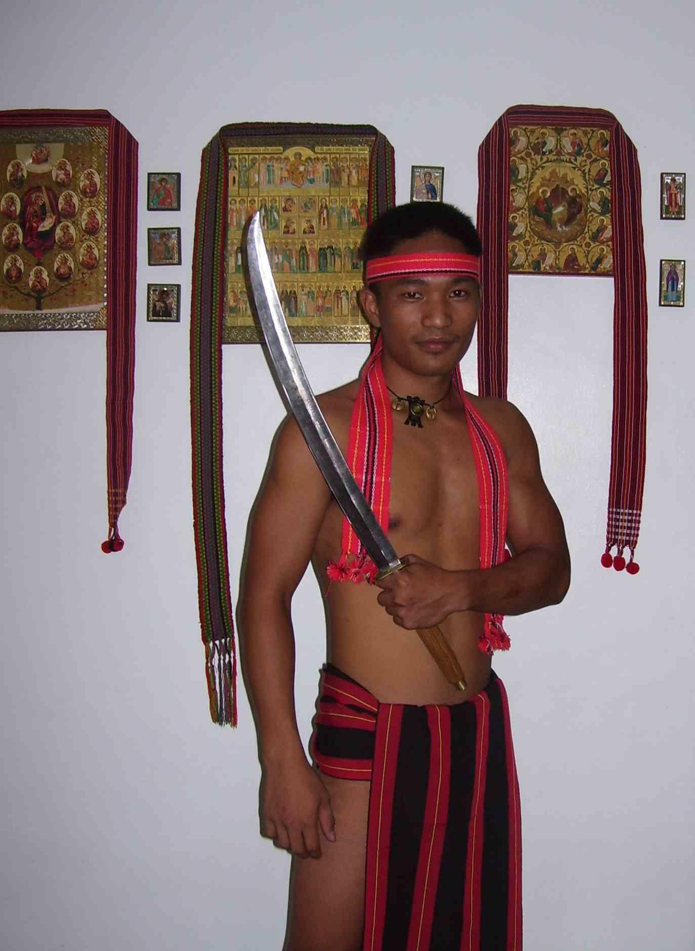 Student from Tinglayan, Kalinga province, Philippines, in traditional garb, with hand-crafted weapon first produced in Kalinga during World War 2.